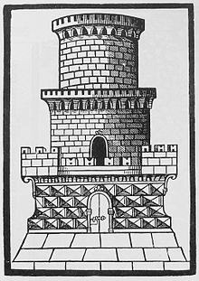 Original stamp of the Soncino Printer's Family